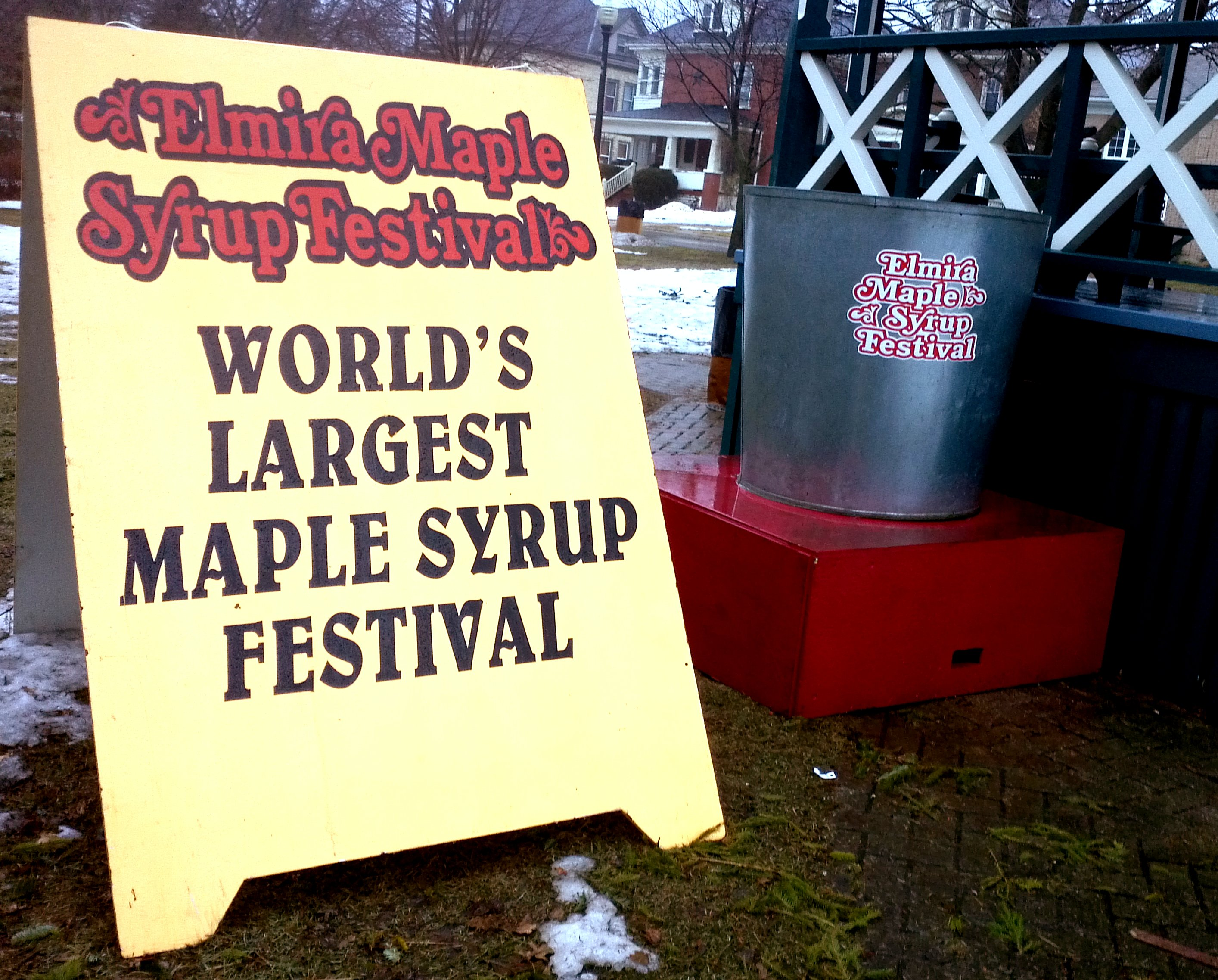 They start setting things up on the Friday: this us what I believe is the world's largest sap bucket (2014)